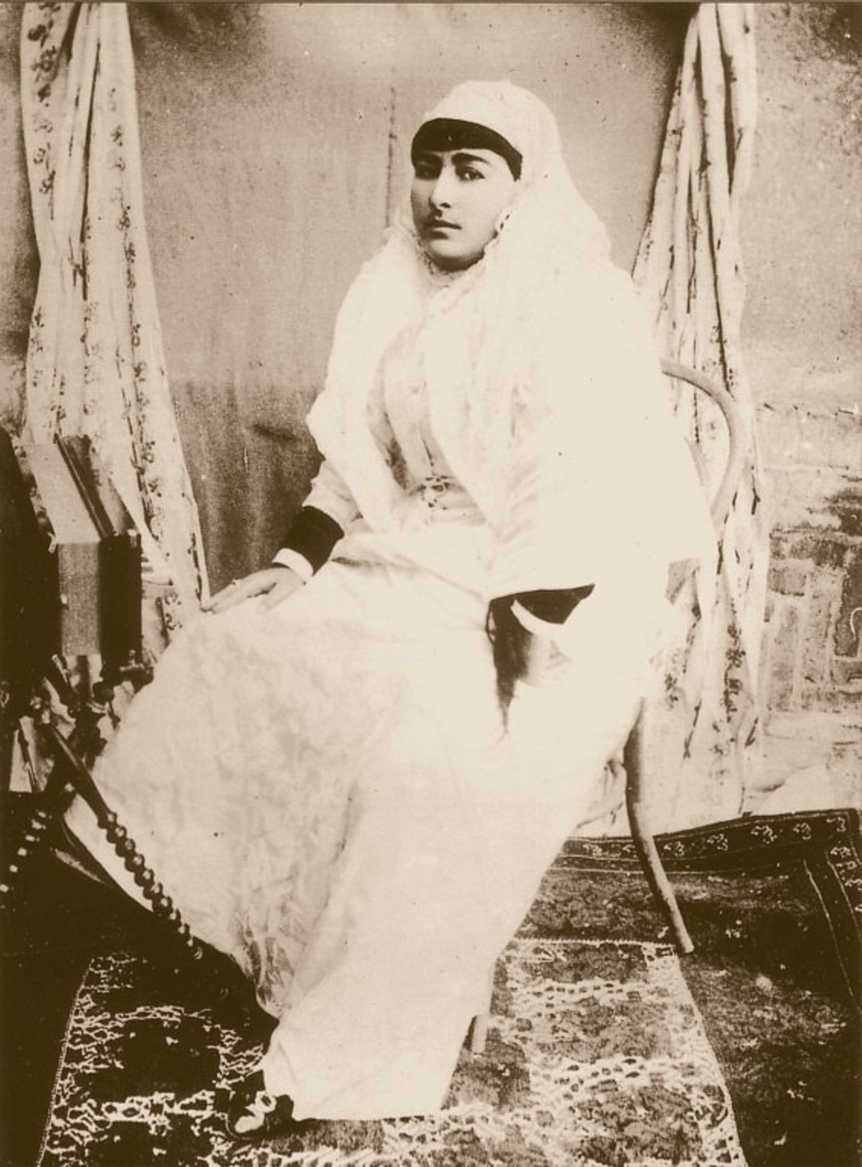 Princess Malekeh-Afagh Khan, around 1900 by Antoine Sevrugin.